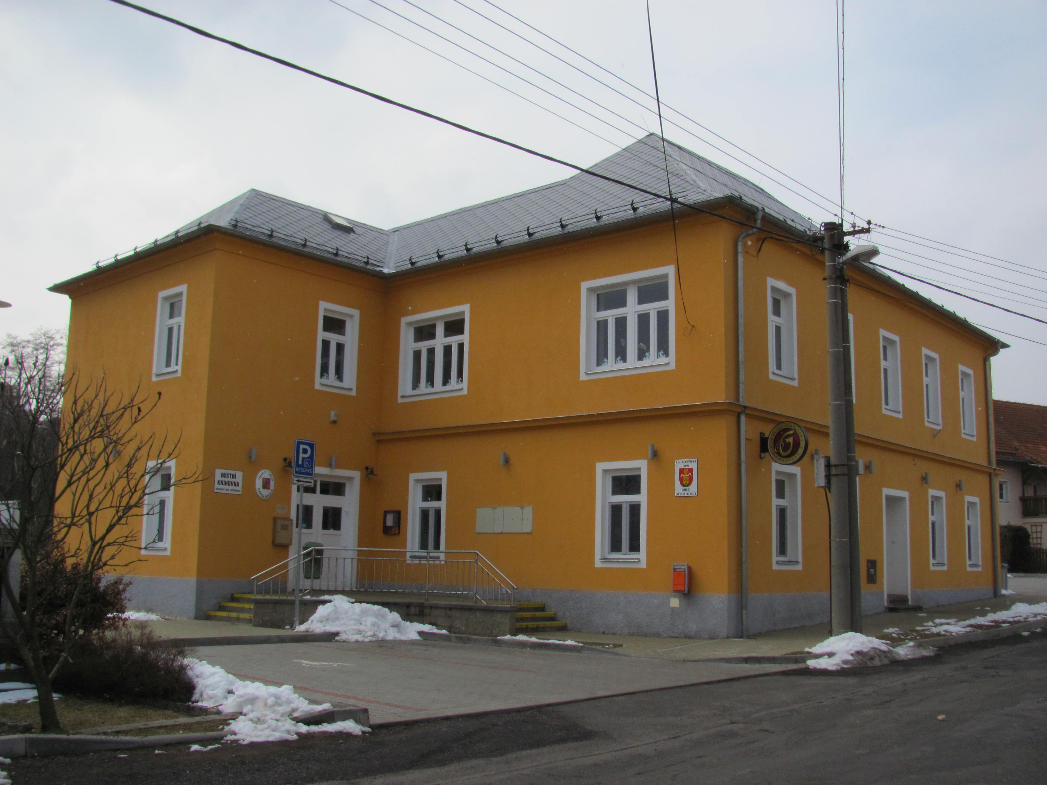 Municipality office in Děpoltovice, (Karlovy Vary District)